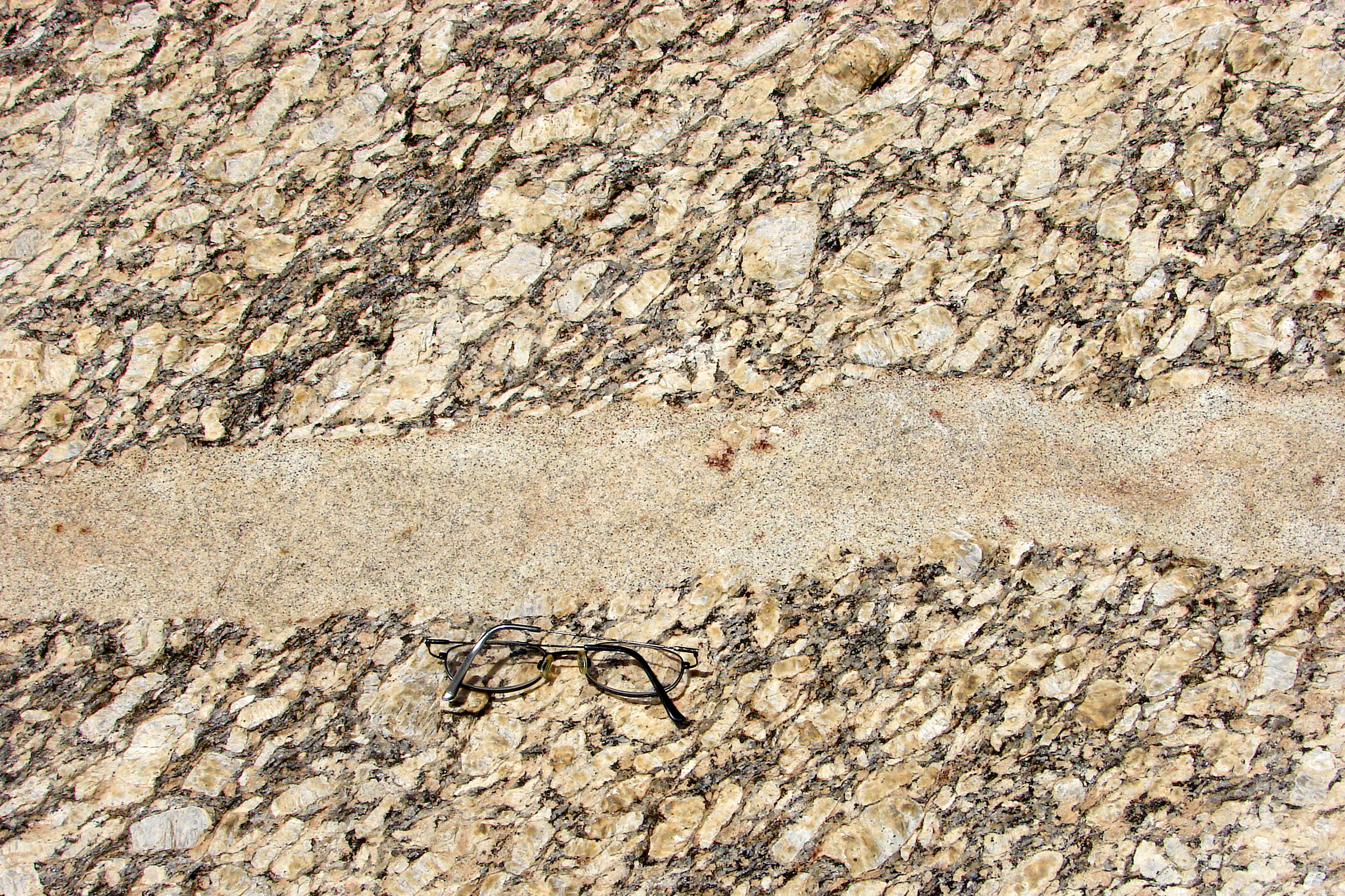 A granite vein cross-cutting an augen gneiss. Picture taken at Niteroi, Brazil